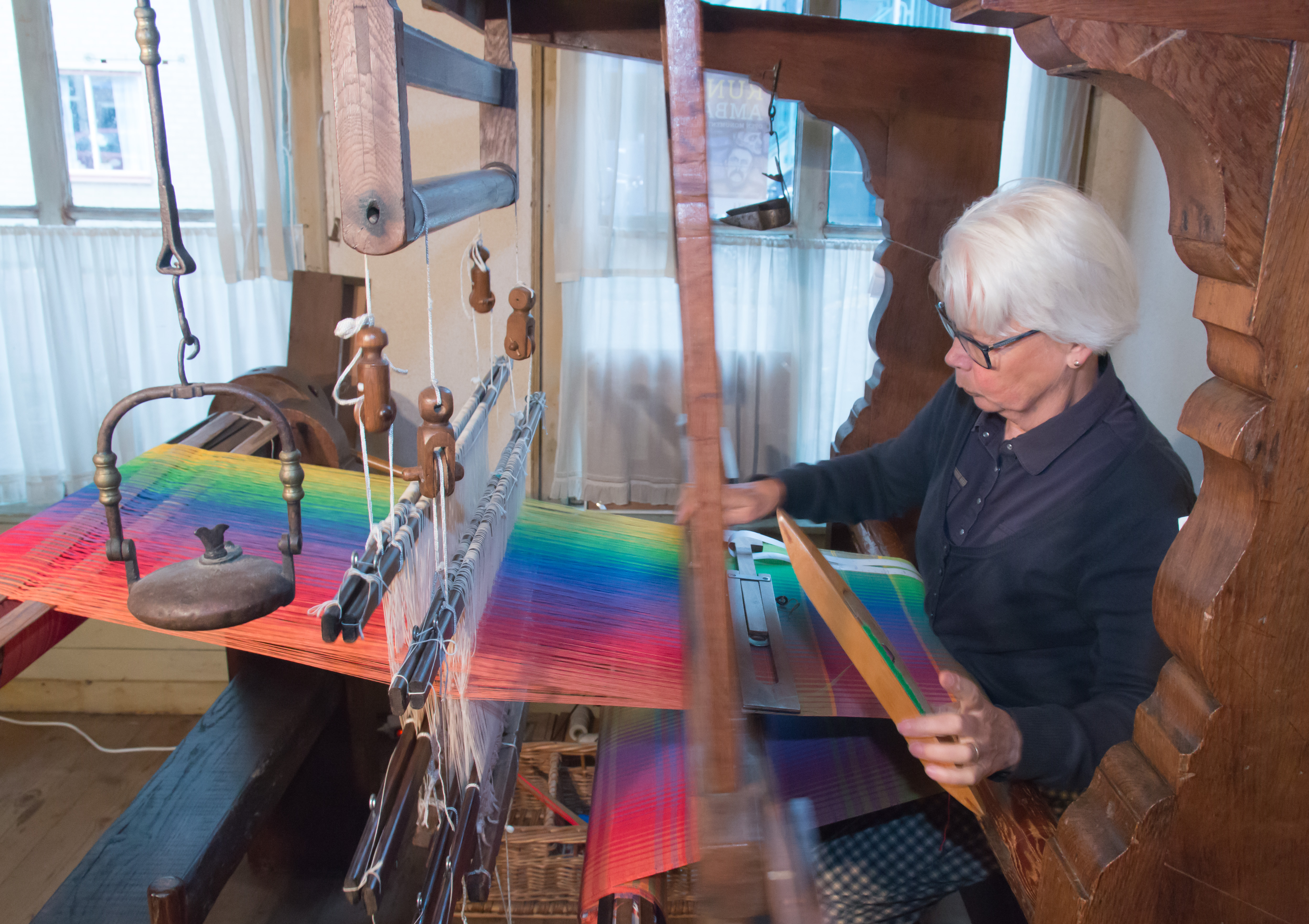 Museum guide ms. A. Fennema shows how fabric for table cloths are woven on the antique loom. A dozen volunteers keep the loom in daily operation during opening hours of the museum, weaving fabric for table cloths, which are for sale in the museum shop. Each table cloth has a unique design, which is created by the volunteer who finishes the previous cloth.